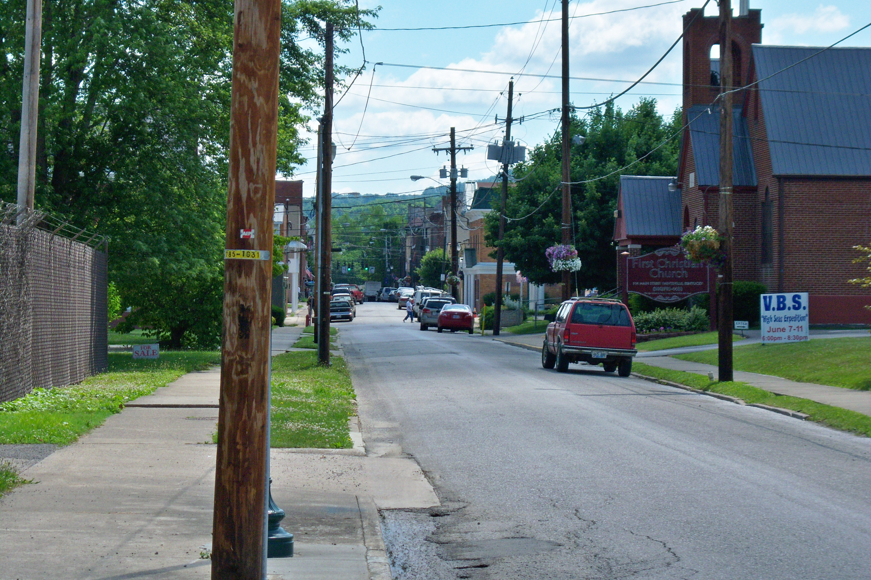 View of Main Street in Paintsville, Kentucky.